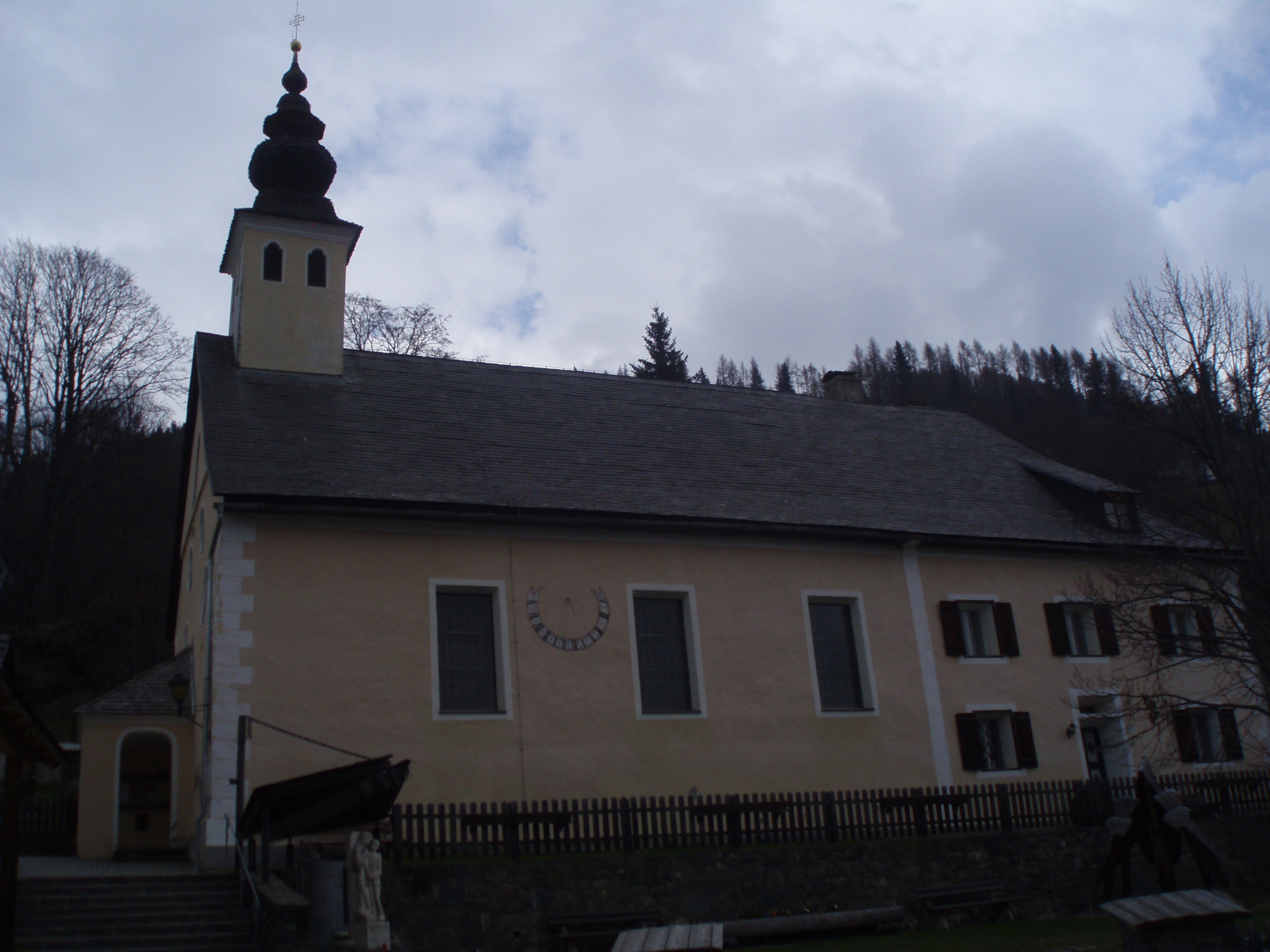 Kath. Pfarrkirche hl. Ulrich mit Pfarrhof und Friedhof